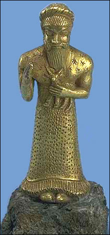 Photo was taken of the object, which is kept in Parisl Louvre Sb 2758. The object was excavated from Iran in 1904 at the Acropolis of Susa. The object stands 3 inches tall.Golden statuette of a man (probably a king) carrying a goat. Susa, Iran, c.1500-1200 BC (Middle Elamite period).